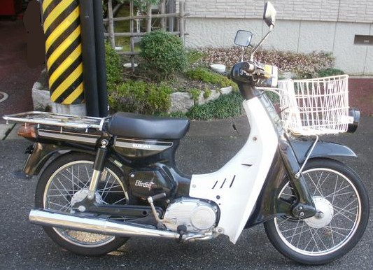 Is one of the variations of Suzuki birdie, Two-Cycle birdie 50(BA14A). Published with the consent of skill in the art to which dismantled the vehicle.